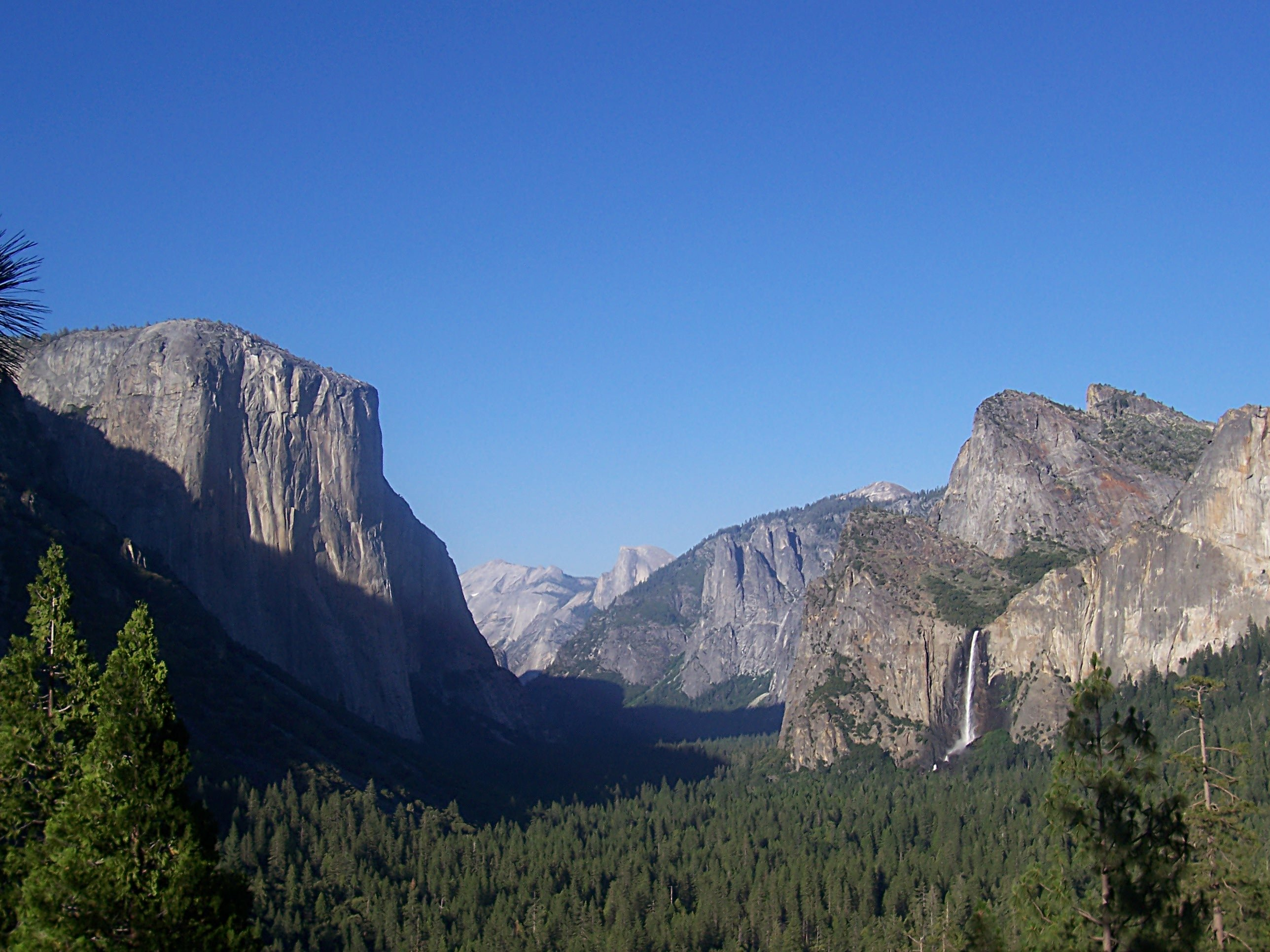 Yosemite Valley from Tunnel View